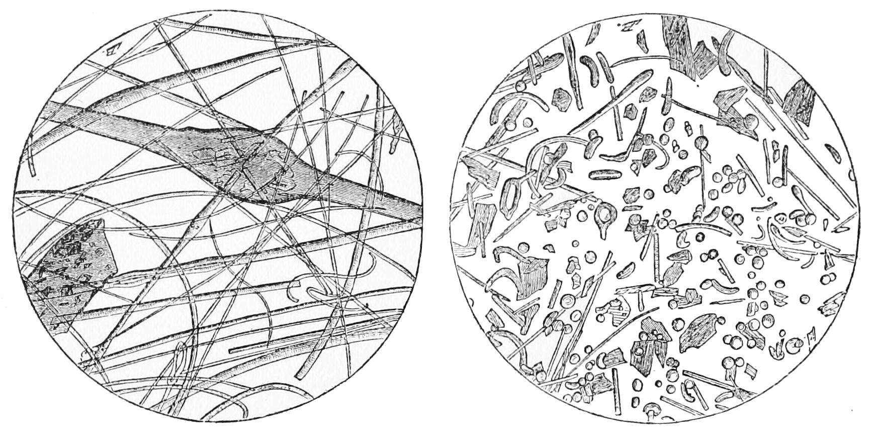 Pele's hairs seen through a microscope at 15 and 100 magnification